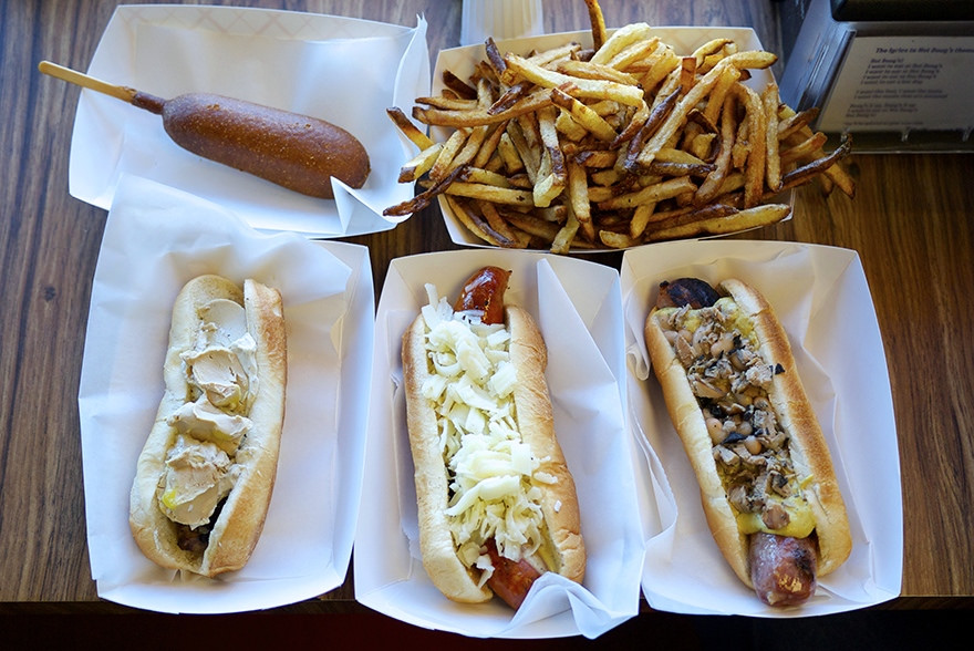 Foie gras duck sausage with truffle aioli, cassoulet dog with herb mustard and duck confit, basque-style pork sausage with cider mustard and Iberico cheese, corndog, and duck-fat fries. (Also ordered another foie gras sausage, polish sausage with all the trimmings, and a steak au poivre sausage with whiskey cheese and fried onions to go)